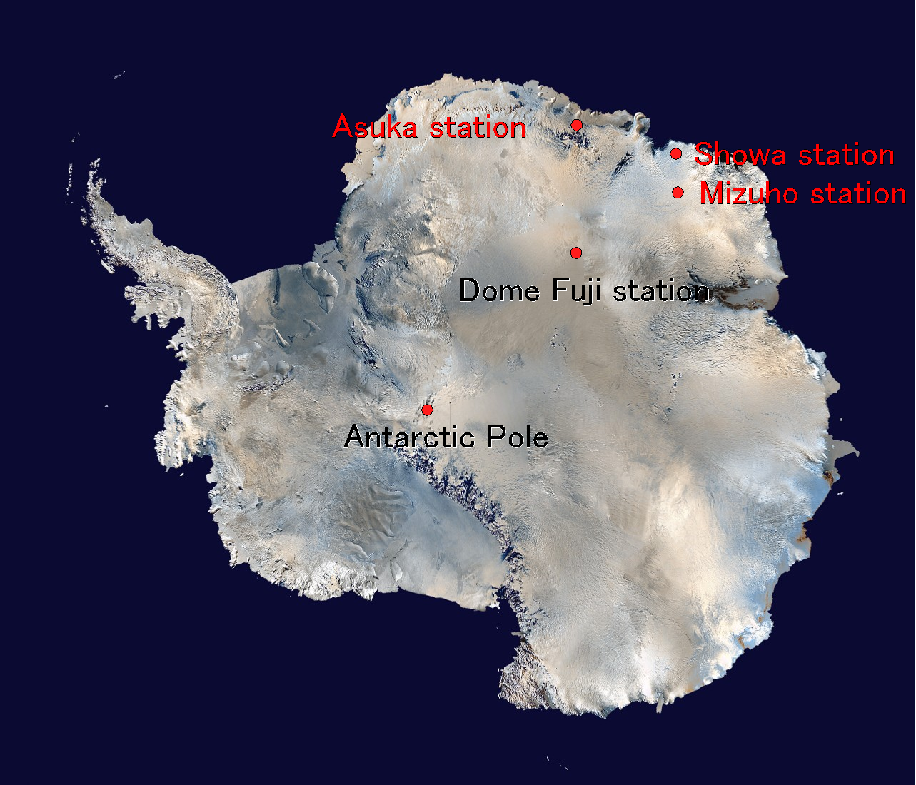 Antarctic bases of Japan